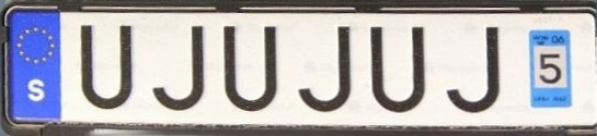 Swedish registration plate